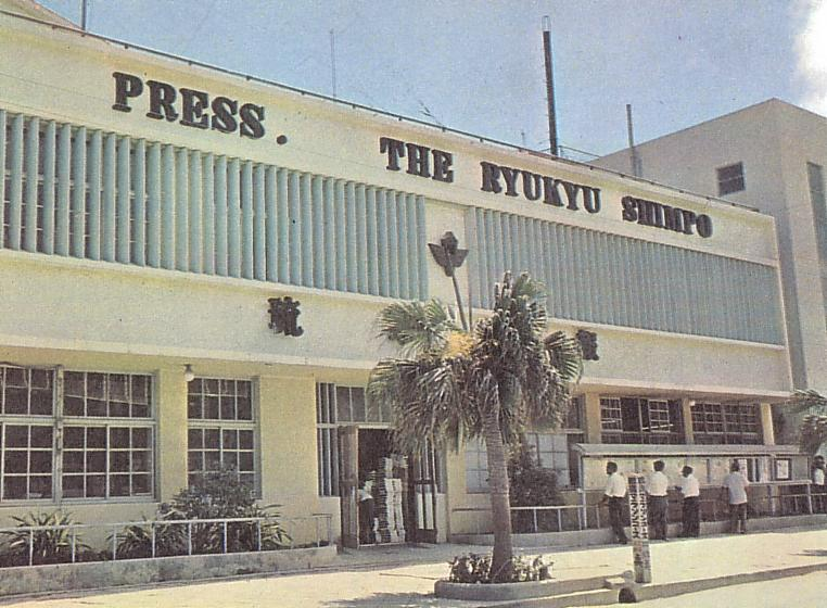 Ryukyu Shimpo Building in 1960s